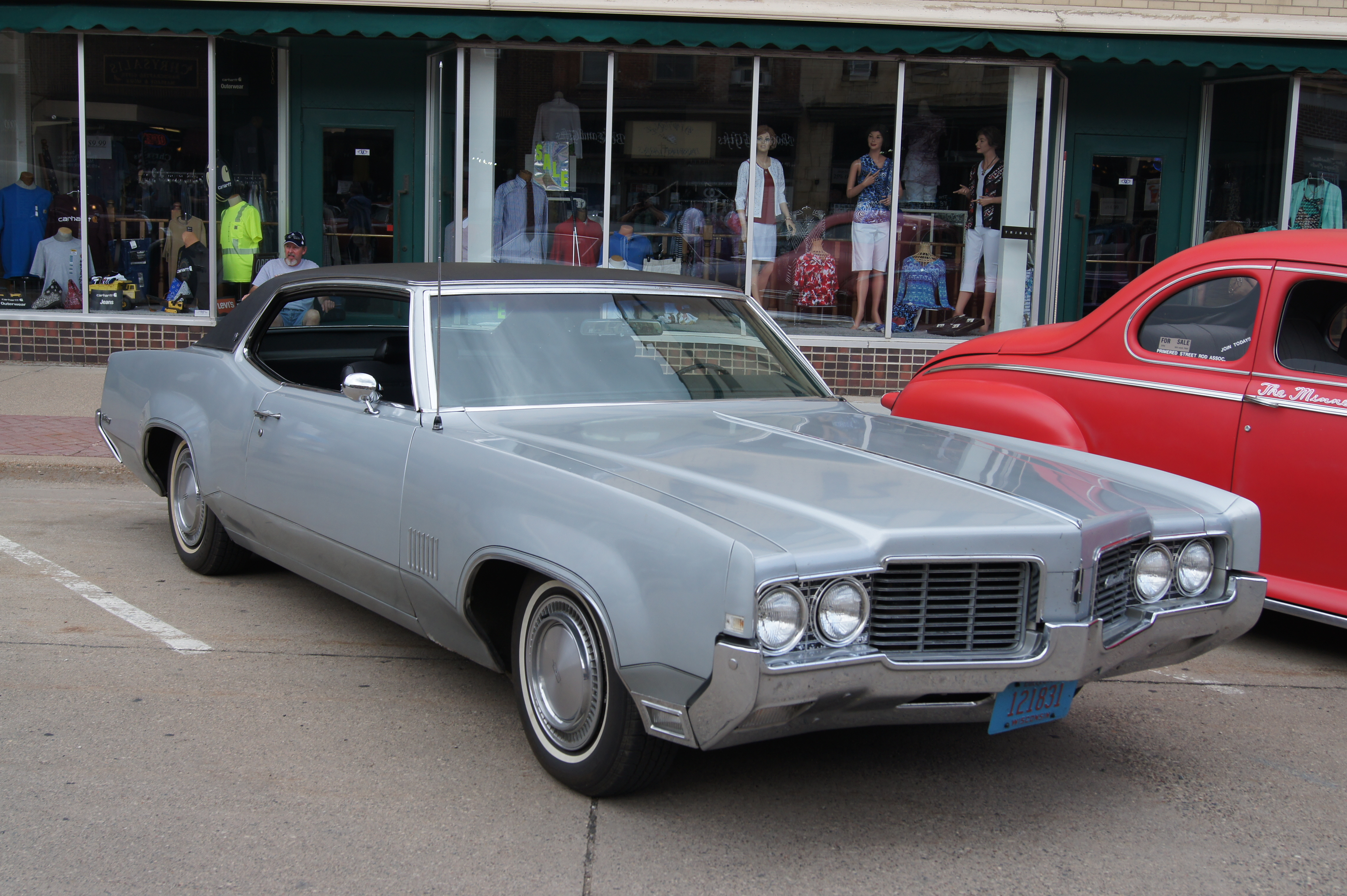 9th Annual Saturday Night Cruise-In June 28,2014 Hastings, Minnesota Participants said attendance was down quite a bit due to forecasts of rain and Thunderstorms. The meteorologists were right. An hour into the event, rain began to fall. For More of My Car Pictures click on the link below